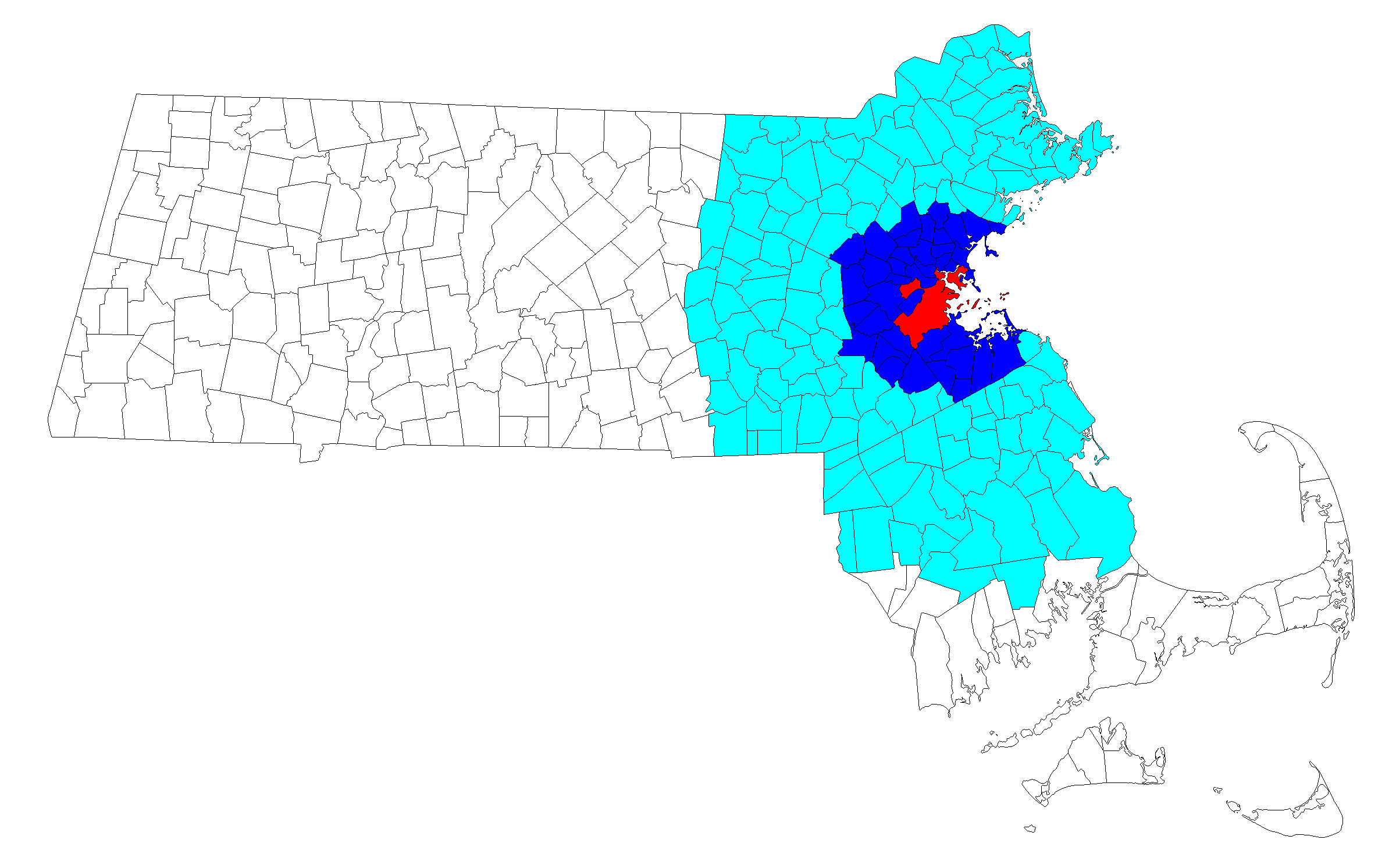 Legend - Red: City of Boston Dark blue: Boston Metropolitan Area Light blue: Greater Boston